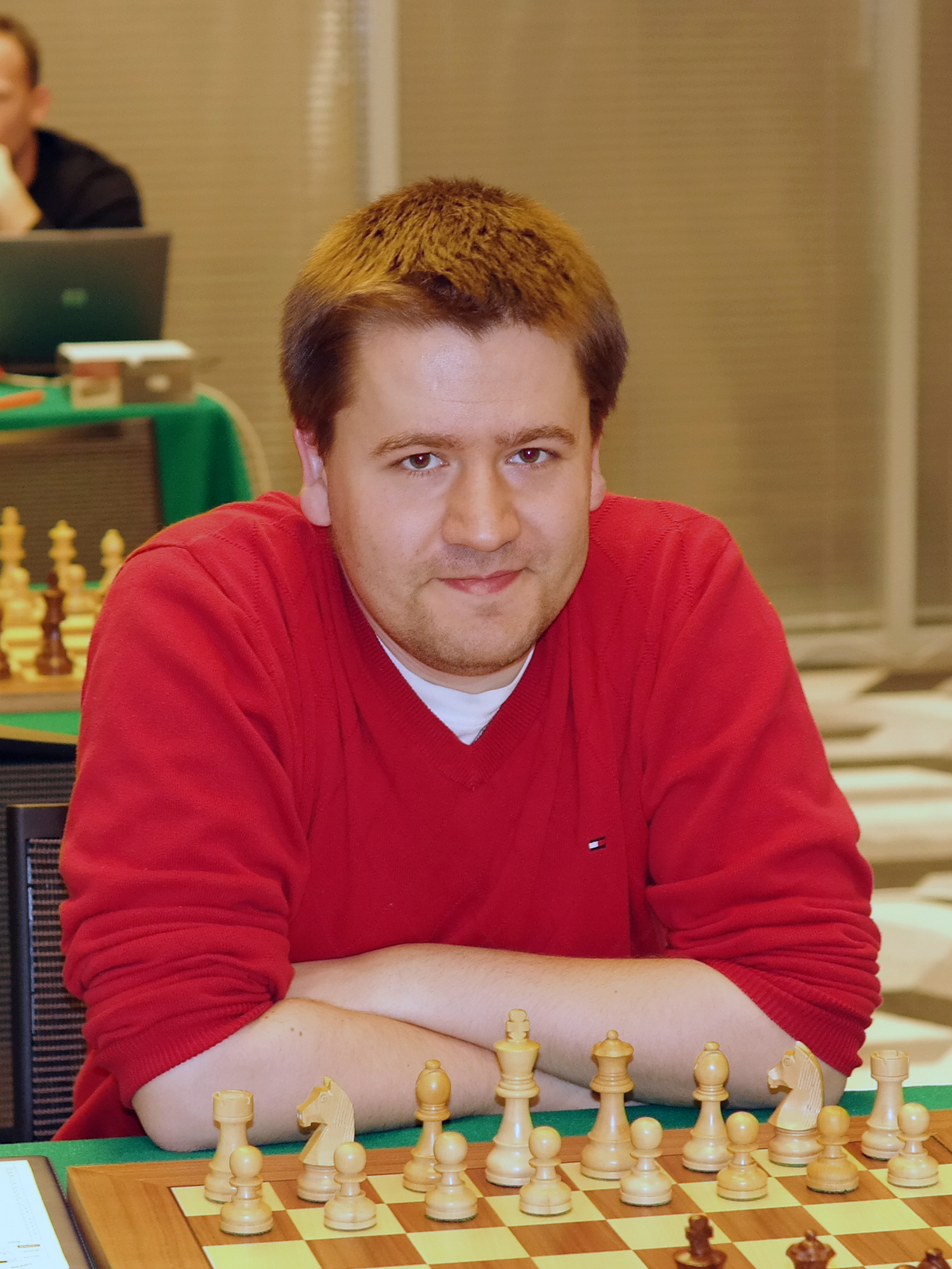 IM Kamil Stachowiak, Polish Chess Championship, Warsaw 2014